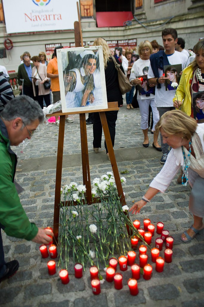 Remembering Nagore Laffage in Iruñea.